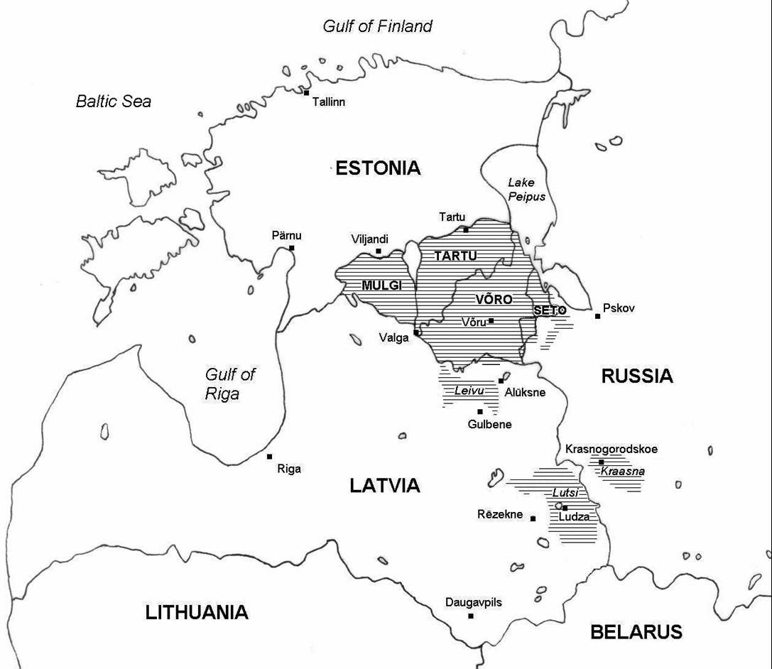 South Estonian language area with the historical enclaves in Latvia and Russia. Made by Võrok (Sulev Iva), corrected in March 2017 (added Vana-Laitsna/Veclaicene Võro-speaking area in Latvia).